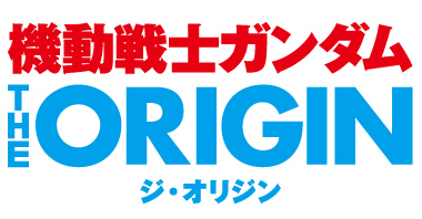 Mobile Suit Gundam: The Origin (機動戦士ガンダム THE ORIGIN Kidō Senshi Gandamu The Origin) logo.